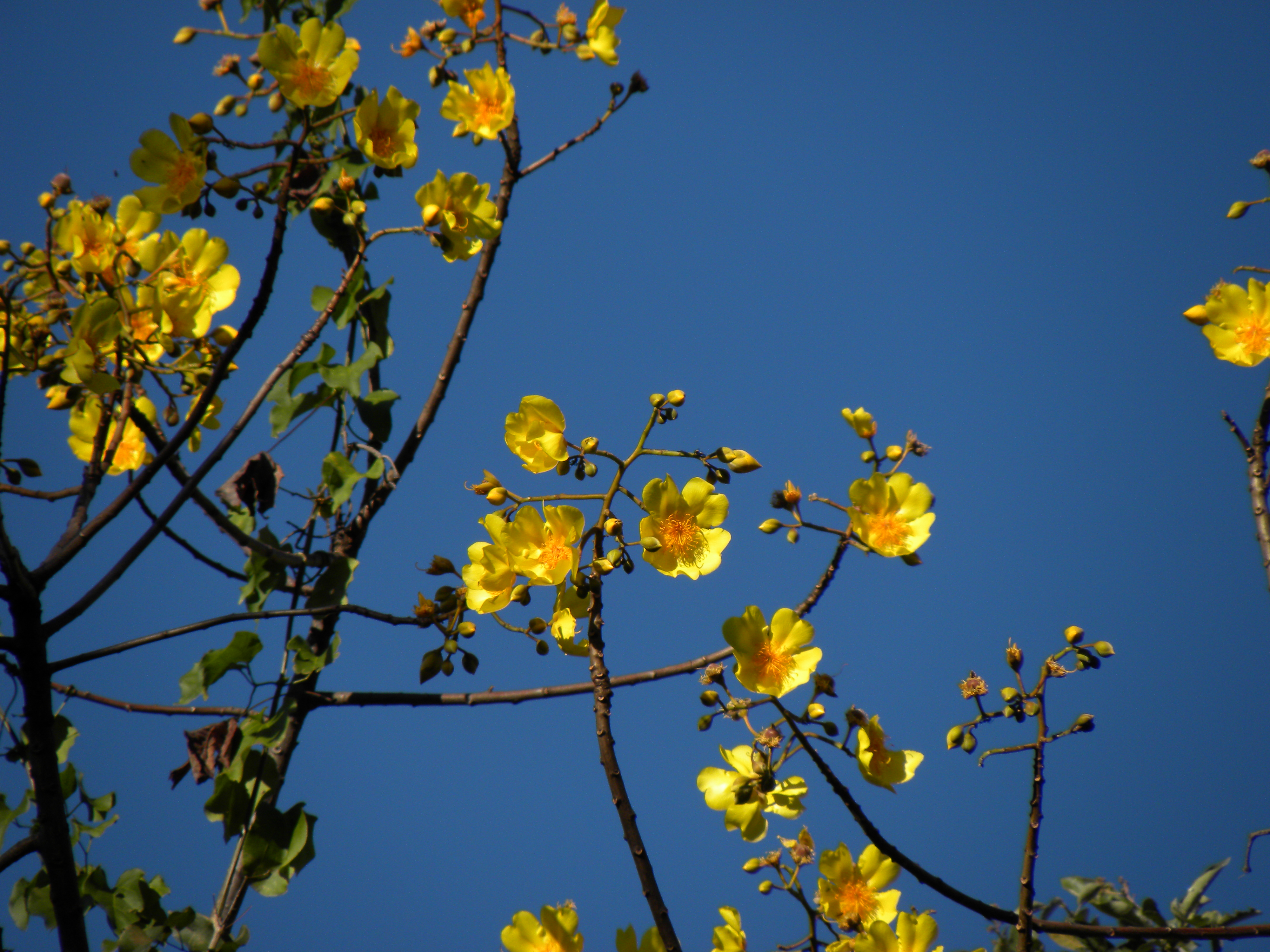 Cochlospermum vitifolium — tree in bloom. In Santa Rosa National Park, Guanacaste Province, northwestern Costa Rica.